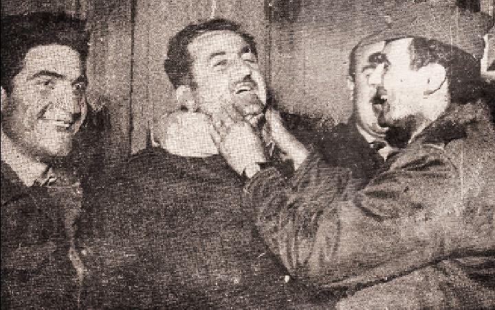 Members of the Ba'athist Military Committee celebrate the success of the March 8 coup d'etat that overthrew the government of President Nazim al-Qudsi and Prime Minister Khaled al-Azm.